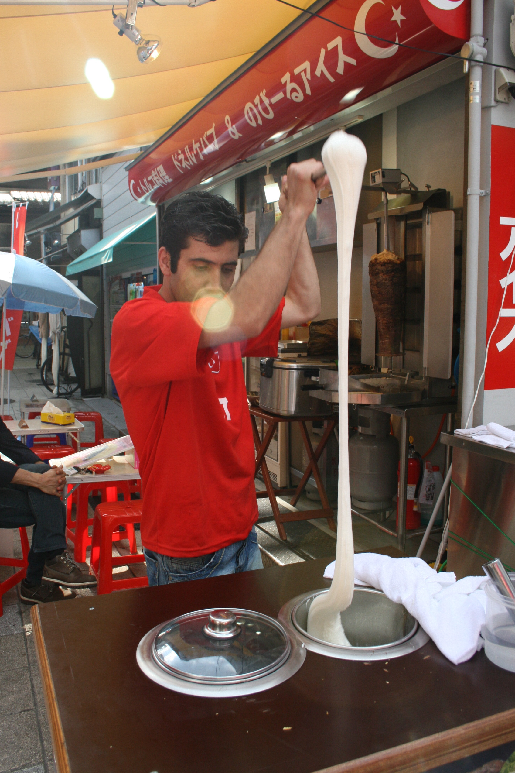 Maraş dondurması: Special Turkish ice-cream for sale in Kyoto